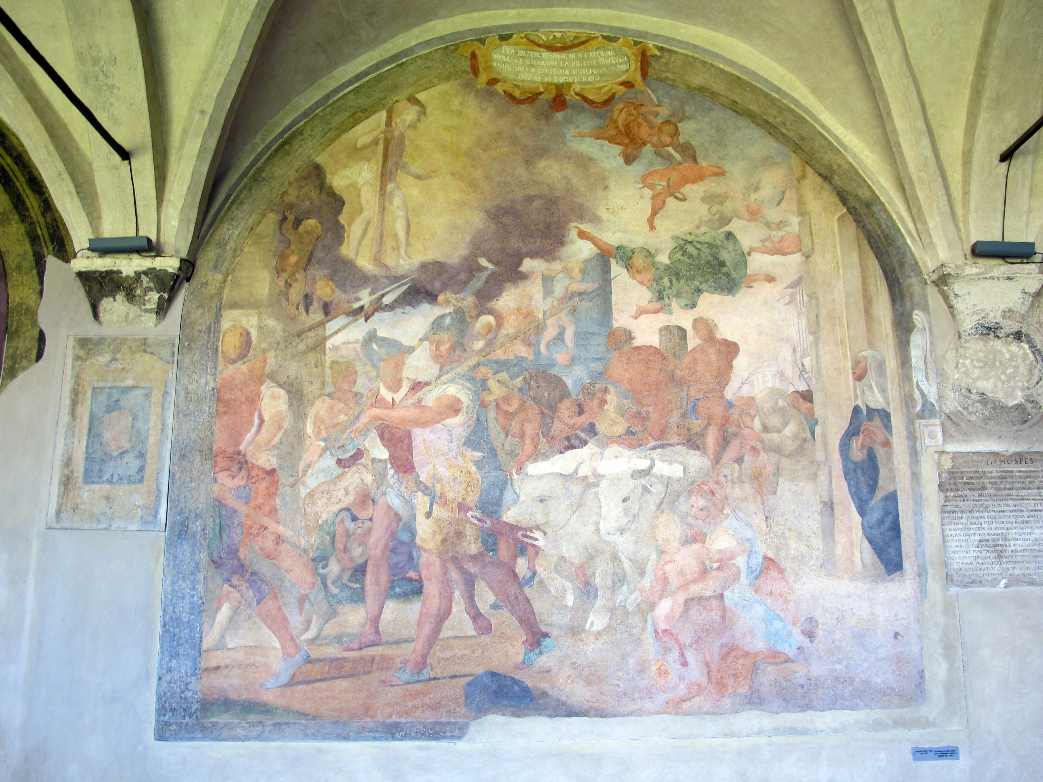 Frescos in the Chiostro Grande in Santa Maria Novella